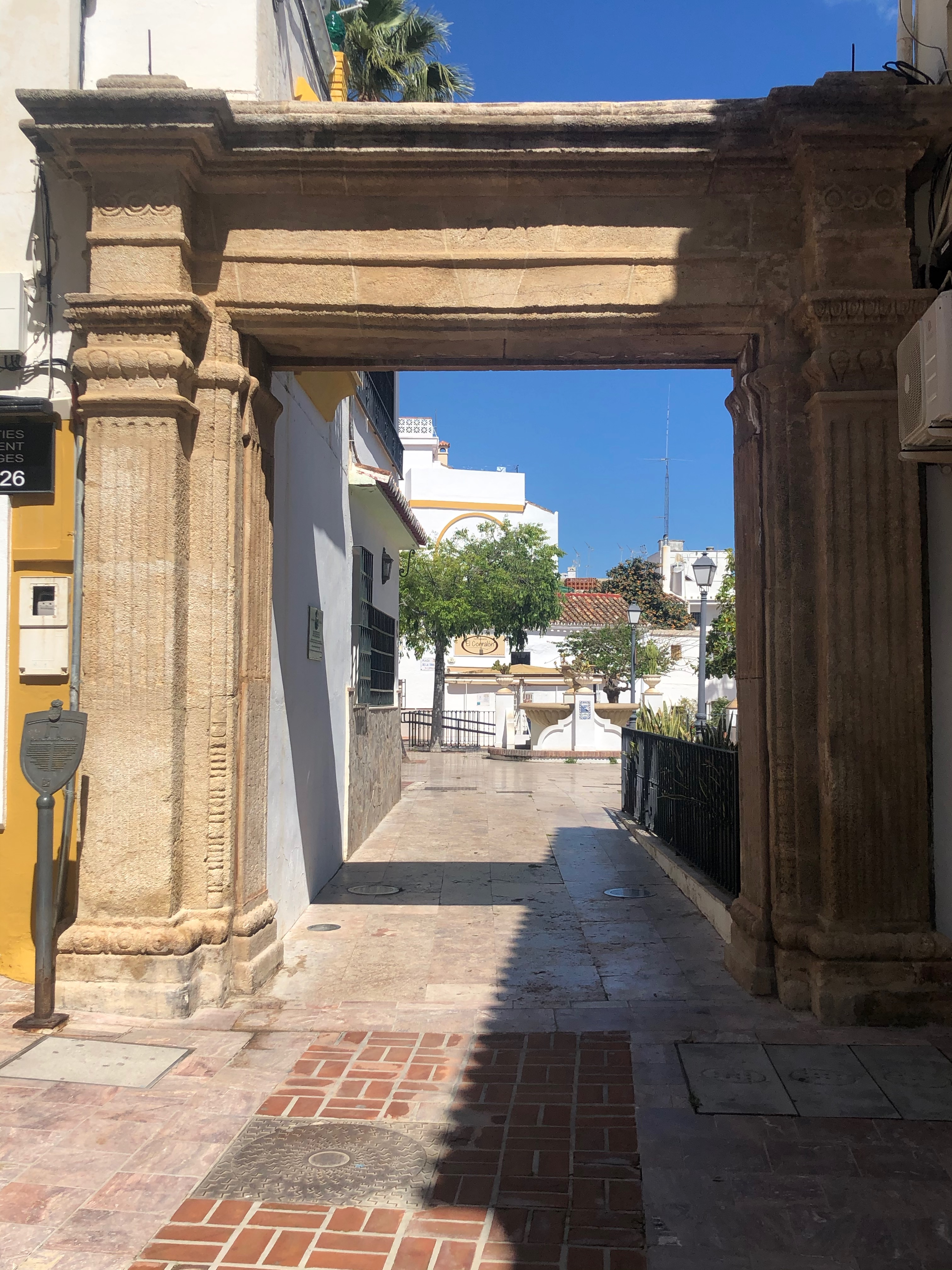 Arch of Tribuna square in Arroyo de la Miel